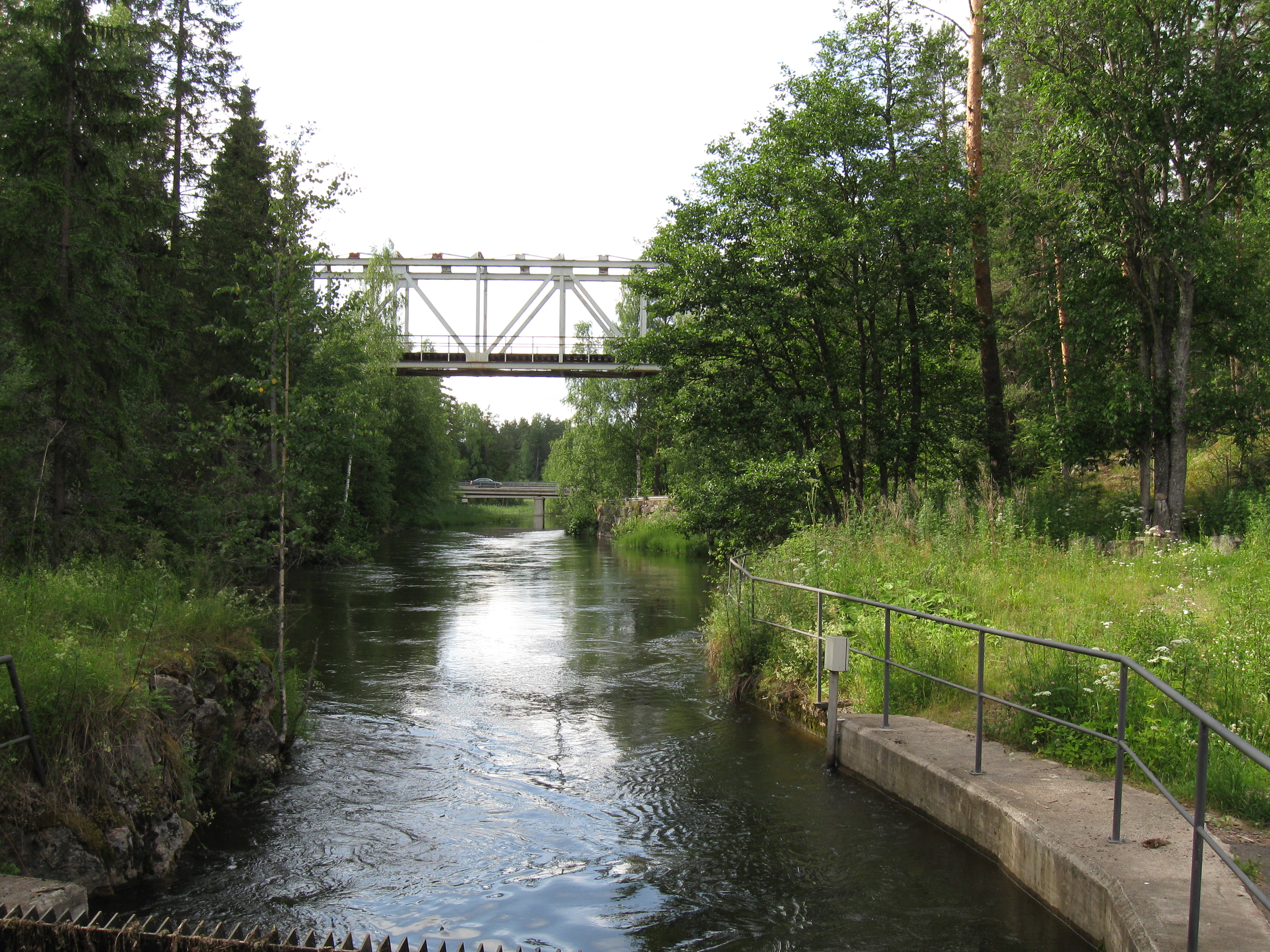 A sight from the Ritakoski power plant of the Hiitolanjoki river in Simpele, Rautjärvi, Finland, towards the main road 6 and the railway bridge crossing the river.